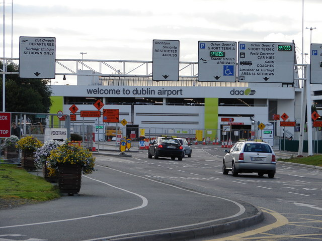 Entrance to Dublin Airport